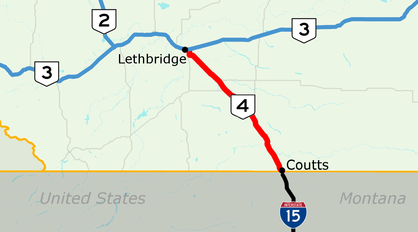 Map of Alberta Highway 4 in southern Alberta, Canada, created with Open Street Map.